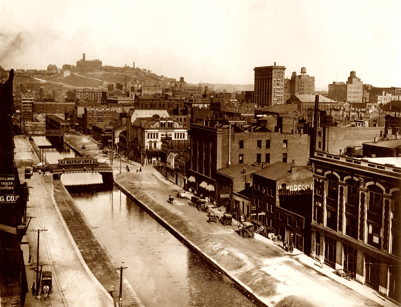 A canal once ran through the heart of Cincinnati. It was drained in 1920.